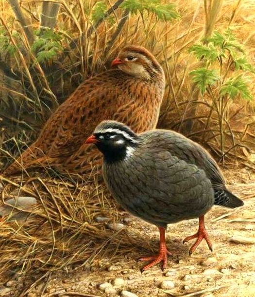 Painting of Mountain Quail Ophrysia superciliosa (1883). Artist: P. Dougalis.